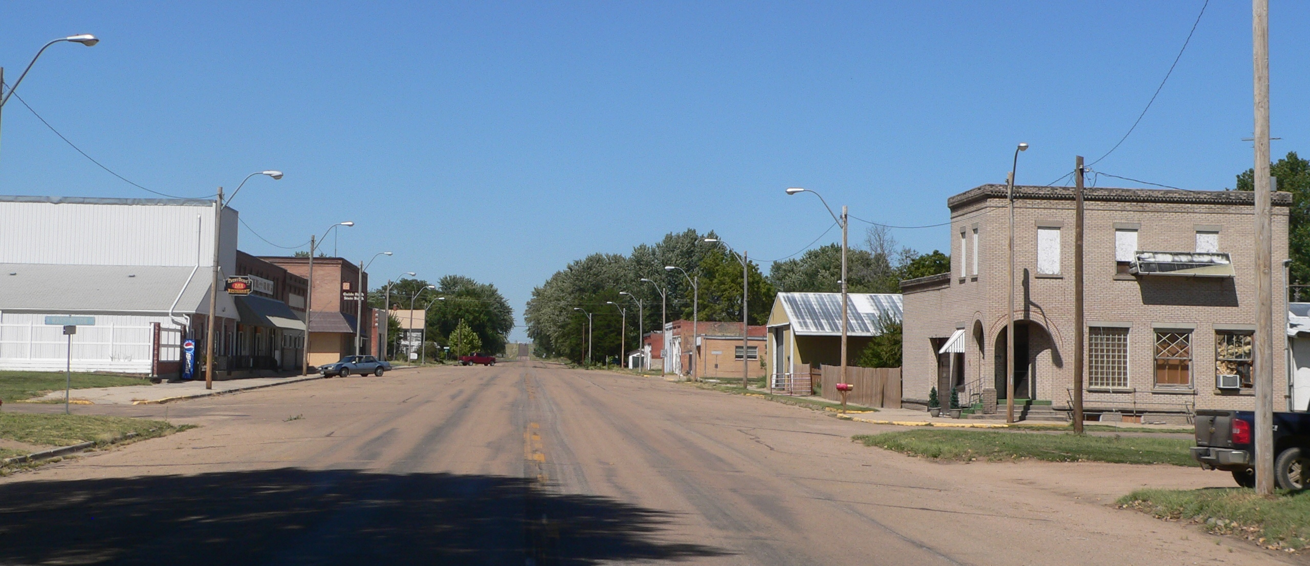 Downtown Guide Rock, Nebraska: University Street, looking north from about Washington Street.